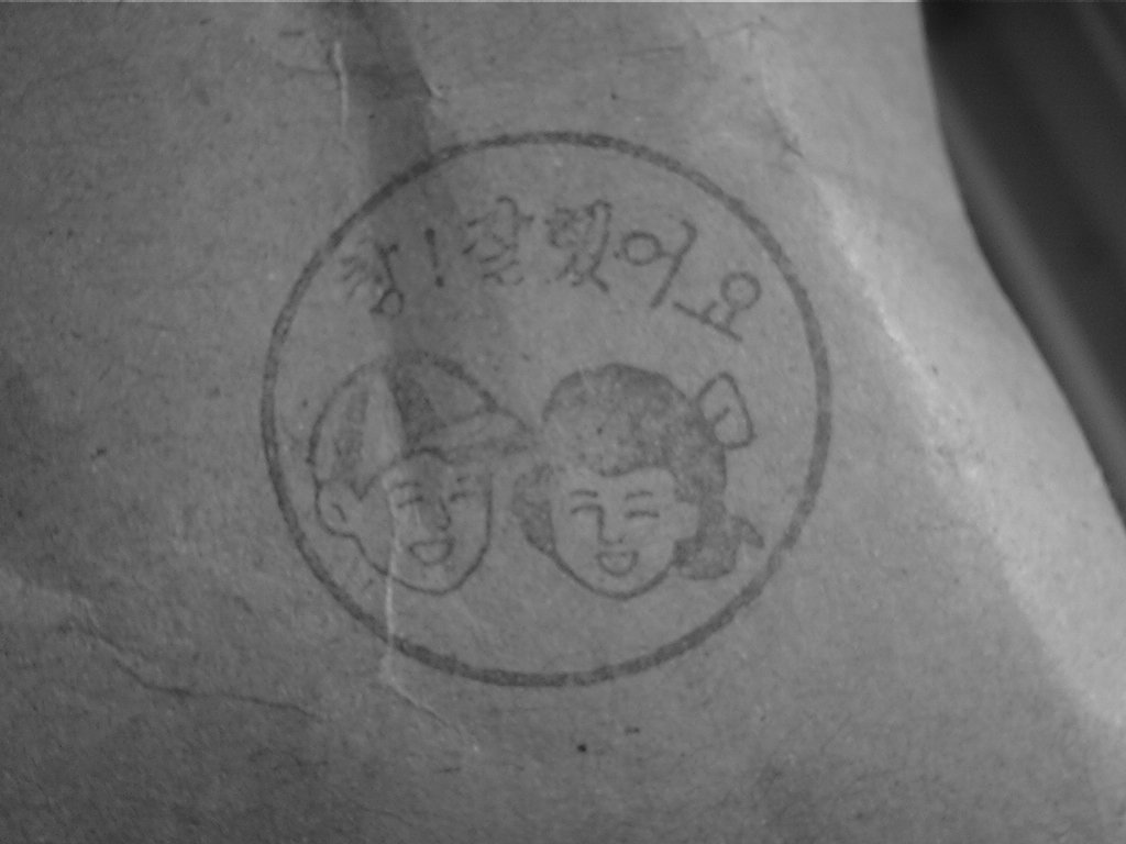 A reward stamp in South Korean elementary schools.